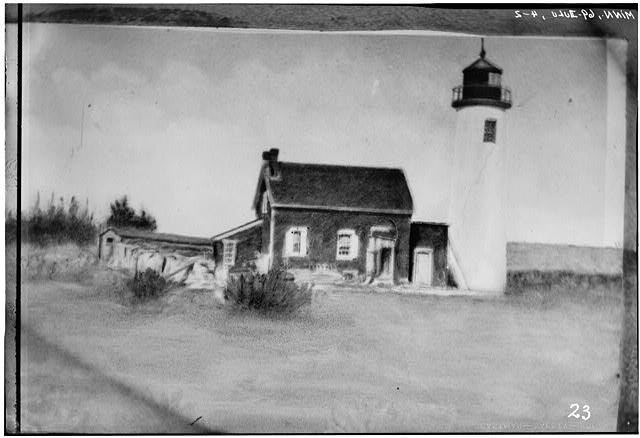 Old photograph of Minnesota Point Light as scanned by Historic American Building Survey Other information This is a photograph of a much older picture, taken by Dept. of the Interior employee. The original picture predates 1893, when the dwelling of the lighthouse was abandoned.